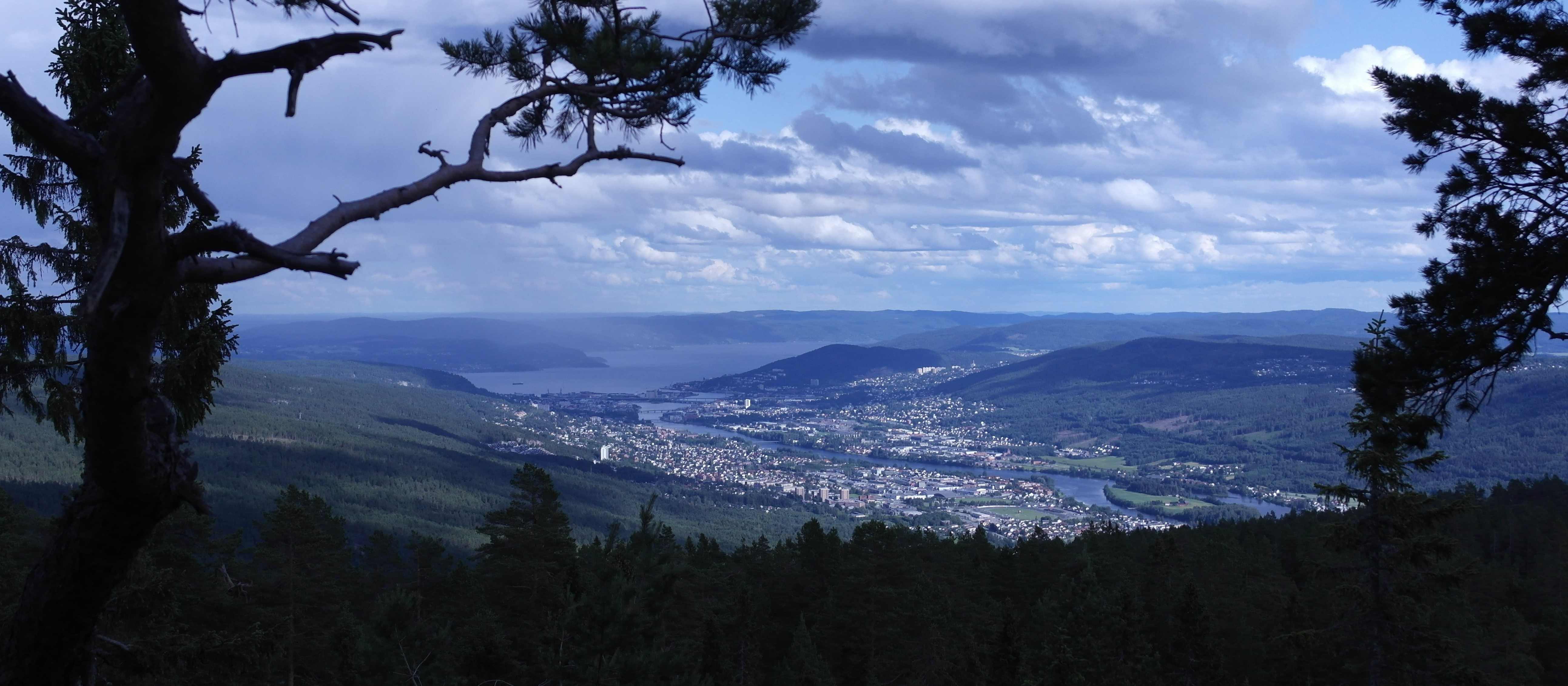 View towards Drammen from 580 m a.s.l. in Finnemarka